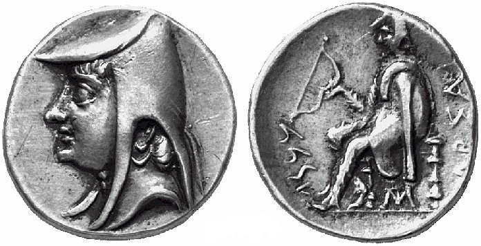 Coin of Arsaces I of Parthia. The reverse shows a seated archer carrying a bow. A Greek inscription on the right reads ΑΡΣΑΚ[ΟΥ] (from the outside). The incription below the bow is in Aramaic.